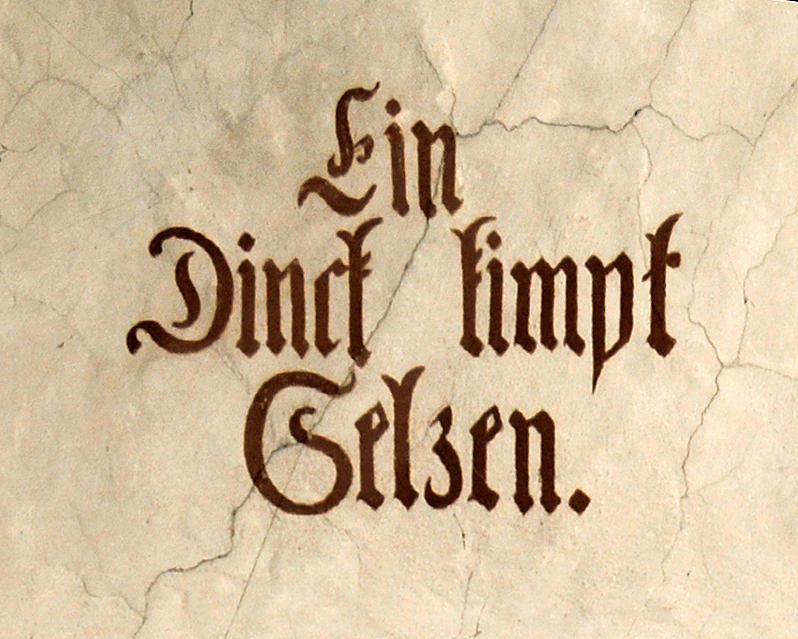 Inscription in the church of Adensen in Nordstemmen, district Hildesheim, Lower Saxony, Germany.